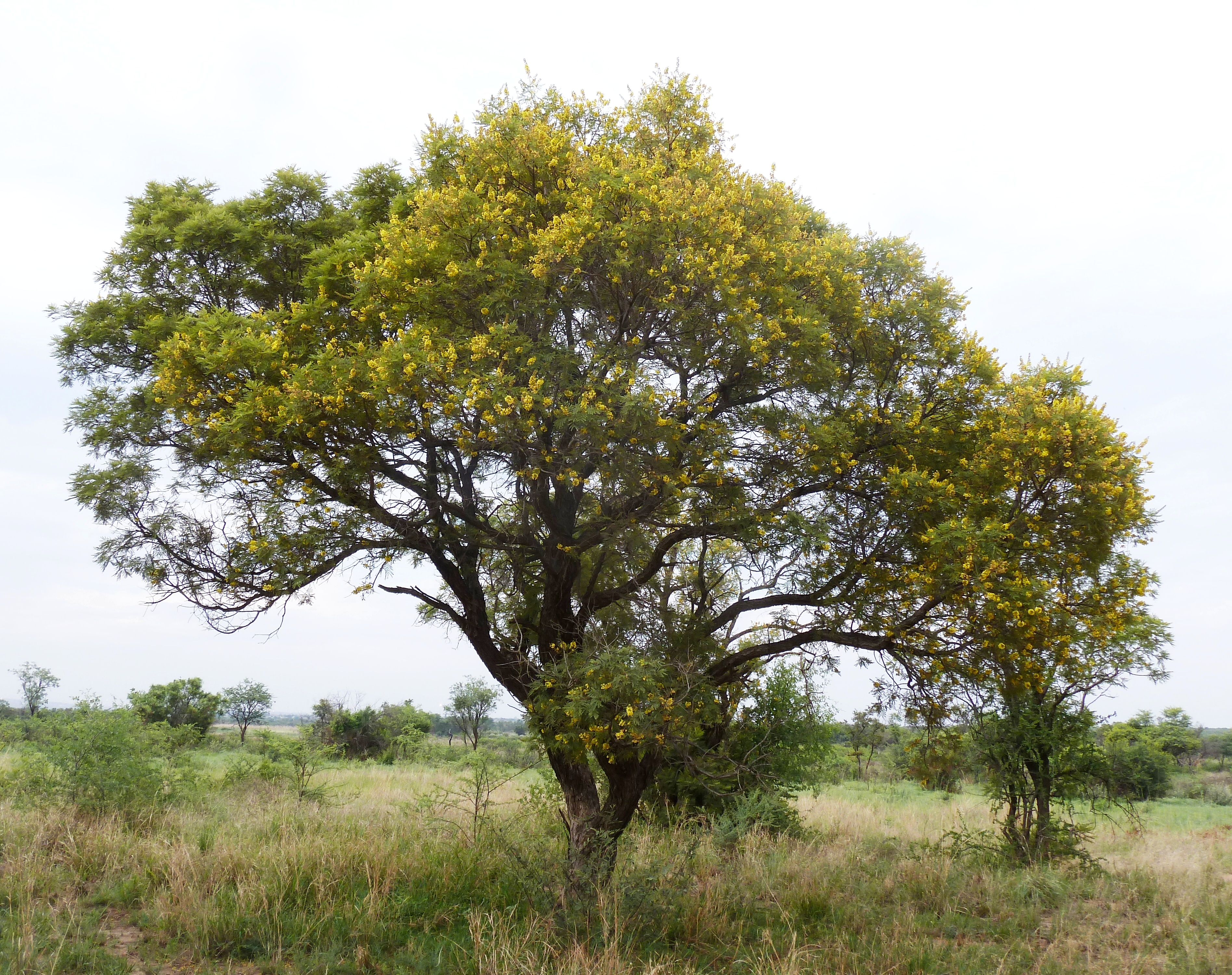 Habit of a Weeping wattle at Zoutpan, near Pretoria